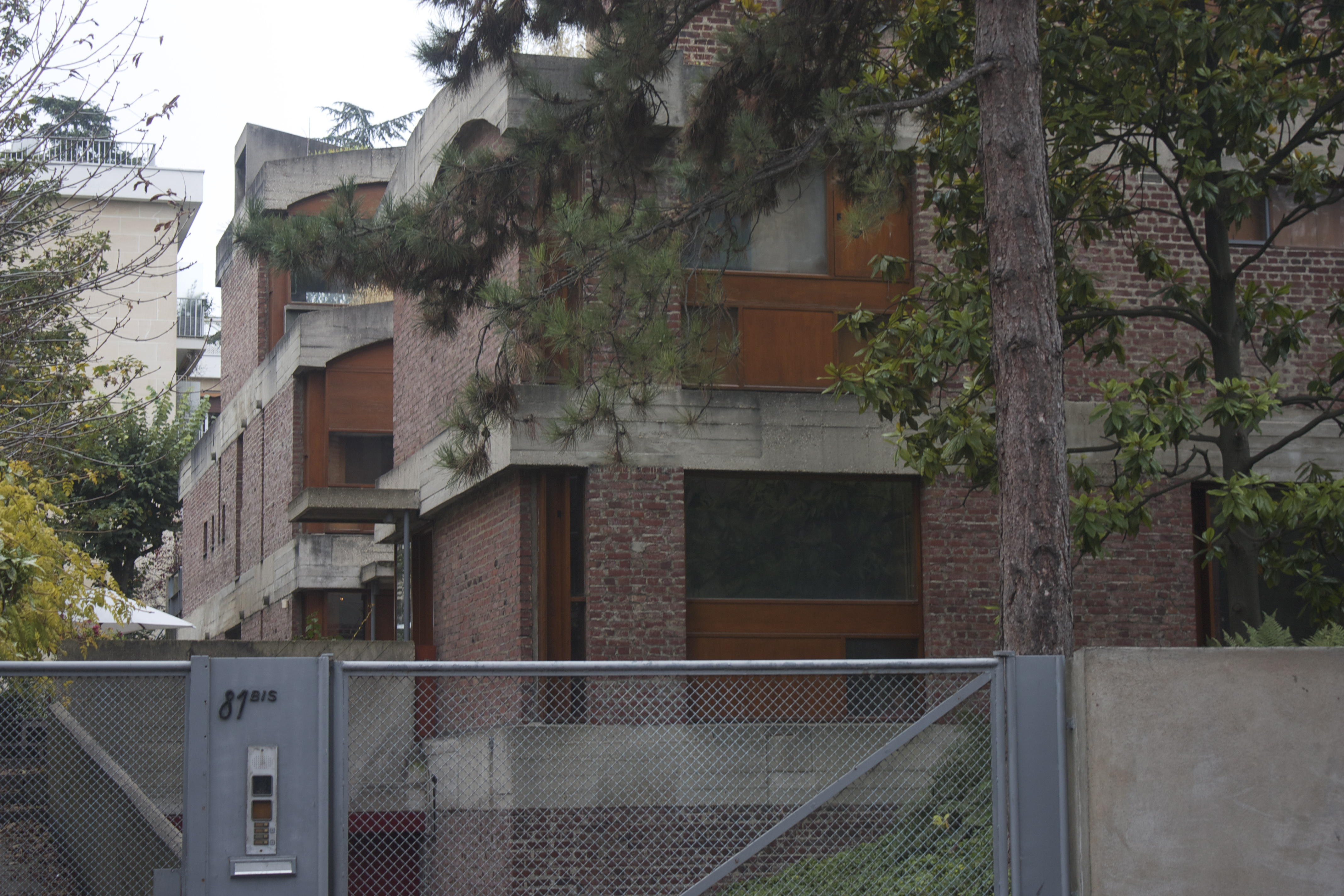 Detail of Maisons Jaoul (French historical monument) in Neuilly-sur-Seine, France.